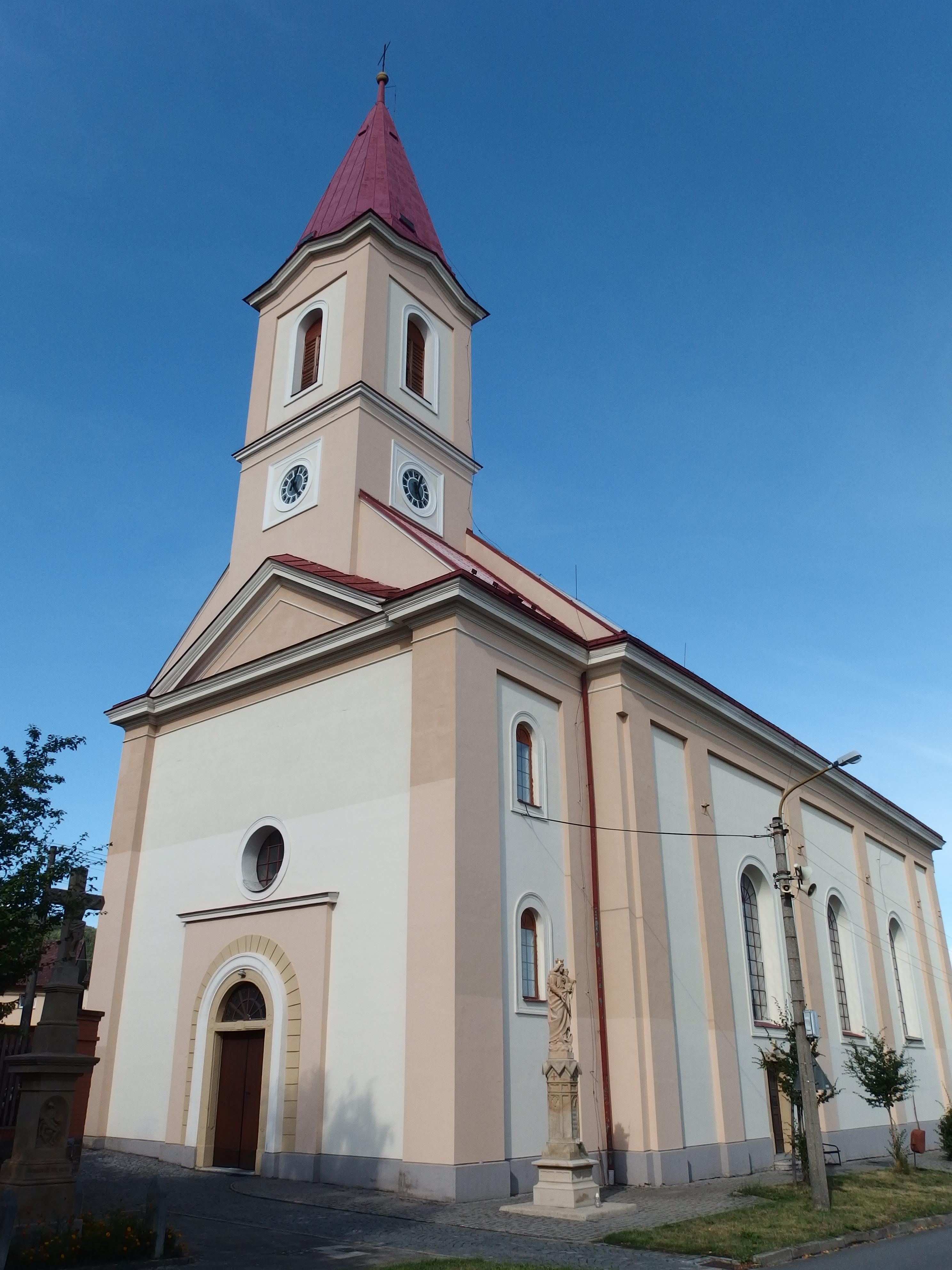 Dolní Újezd, Přerov District, Czech Republic.